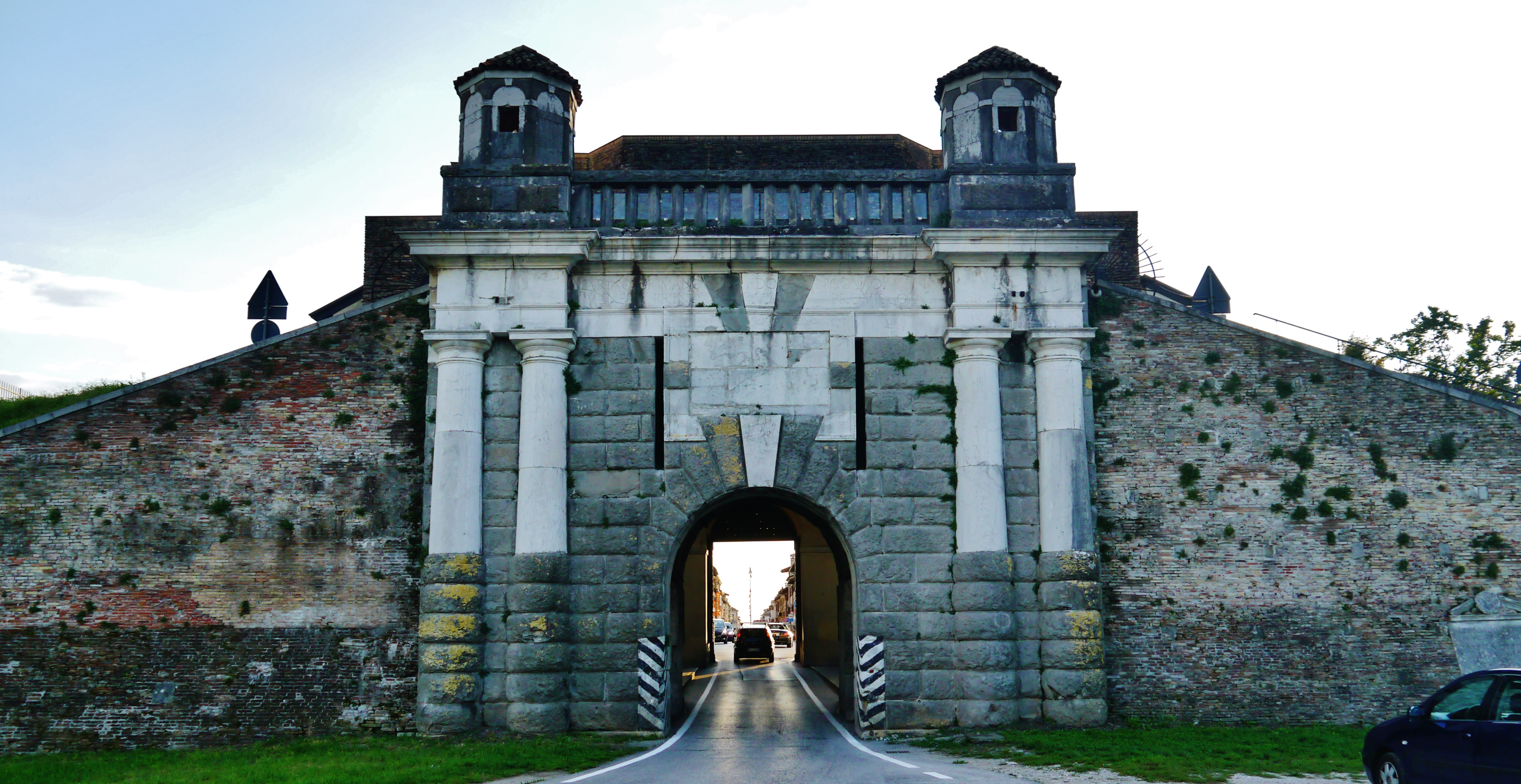 Cividale Gate, Palmanova, Friuli-Venezia Giulia, Italy